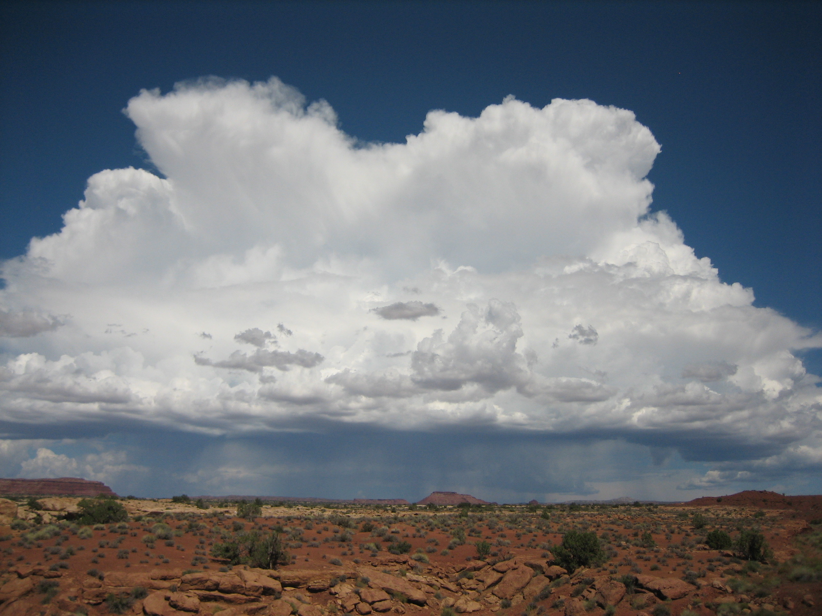 A cumulonimbus cloud over White Canyon, Utah, U.S. (